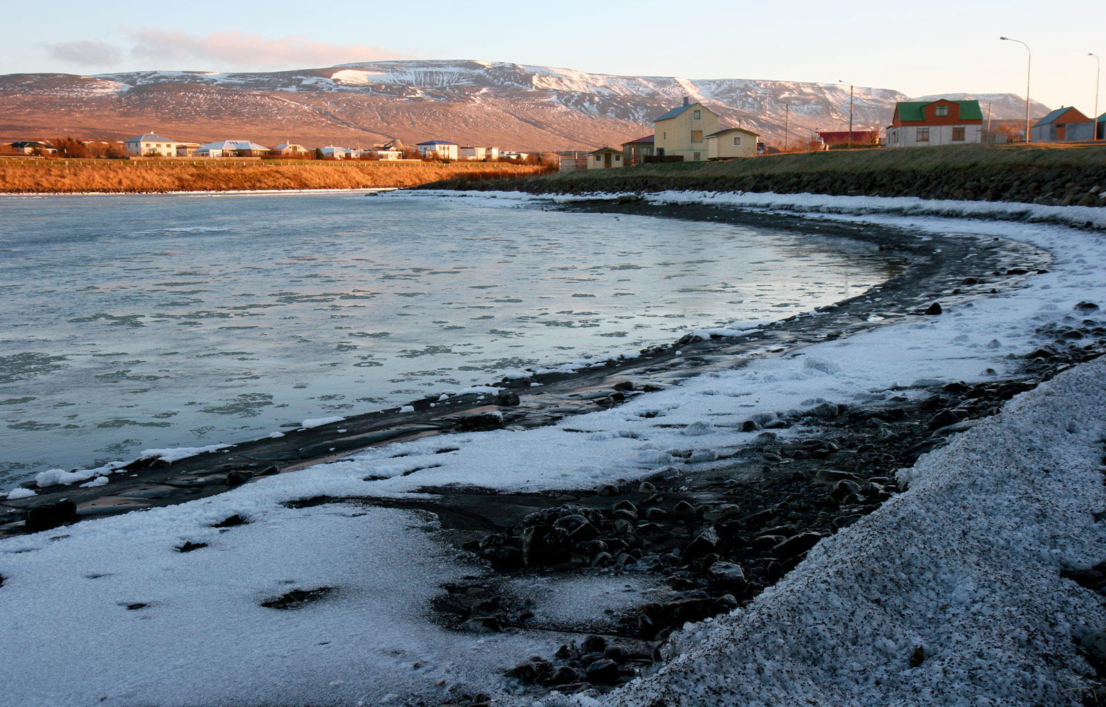 Blanda river, flowing through Blönduós, November 21 12:57 Iceland, November 2007 Photo by me user debivort (or friend, with permission given to upload and license freely).